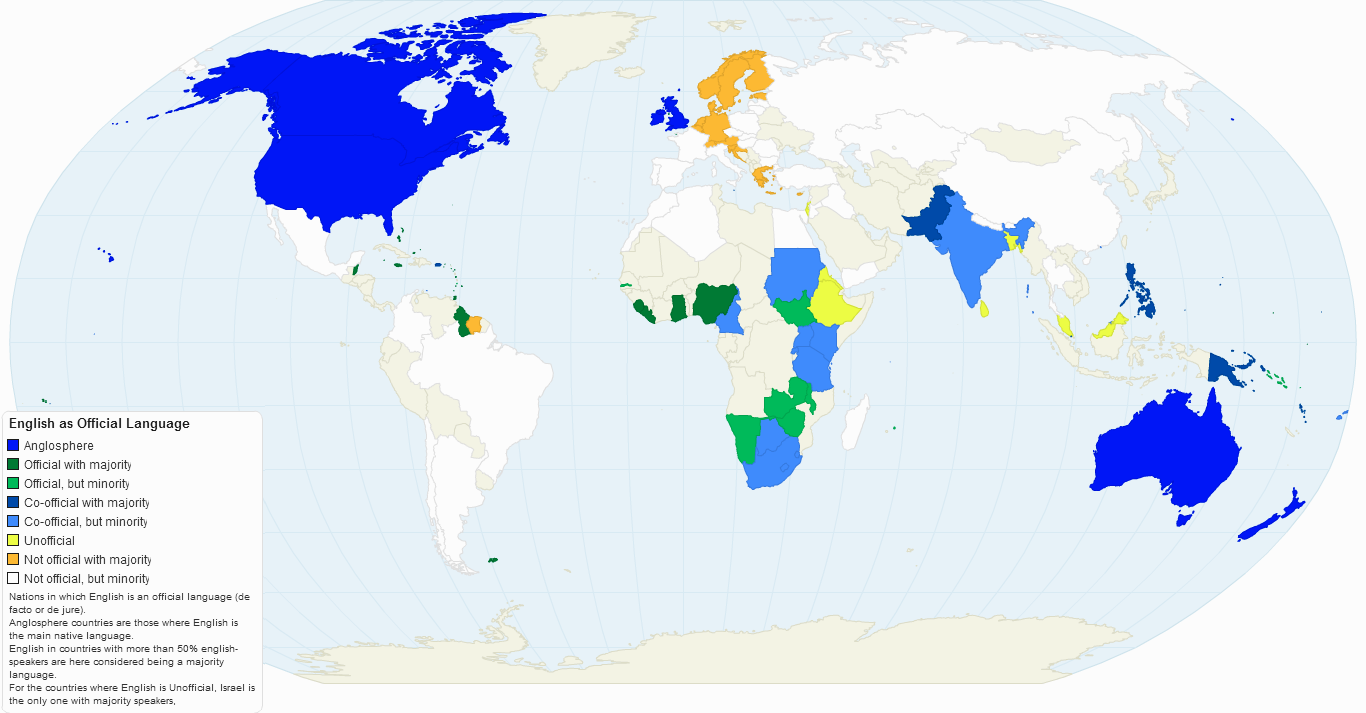 World map of countries by English being their official language